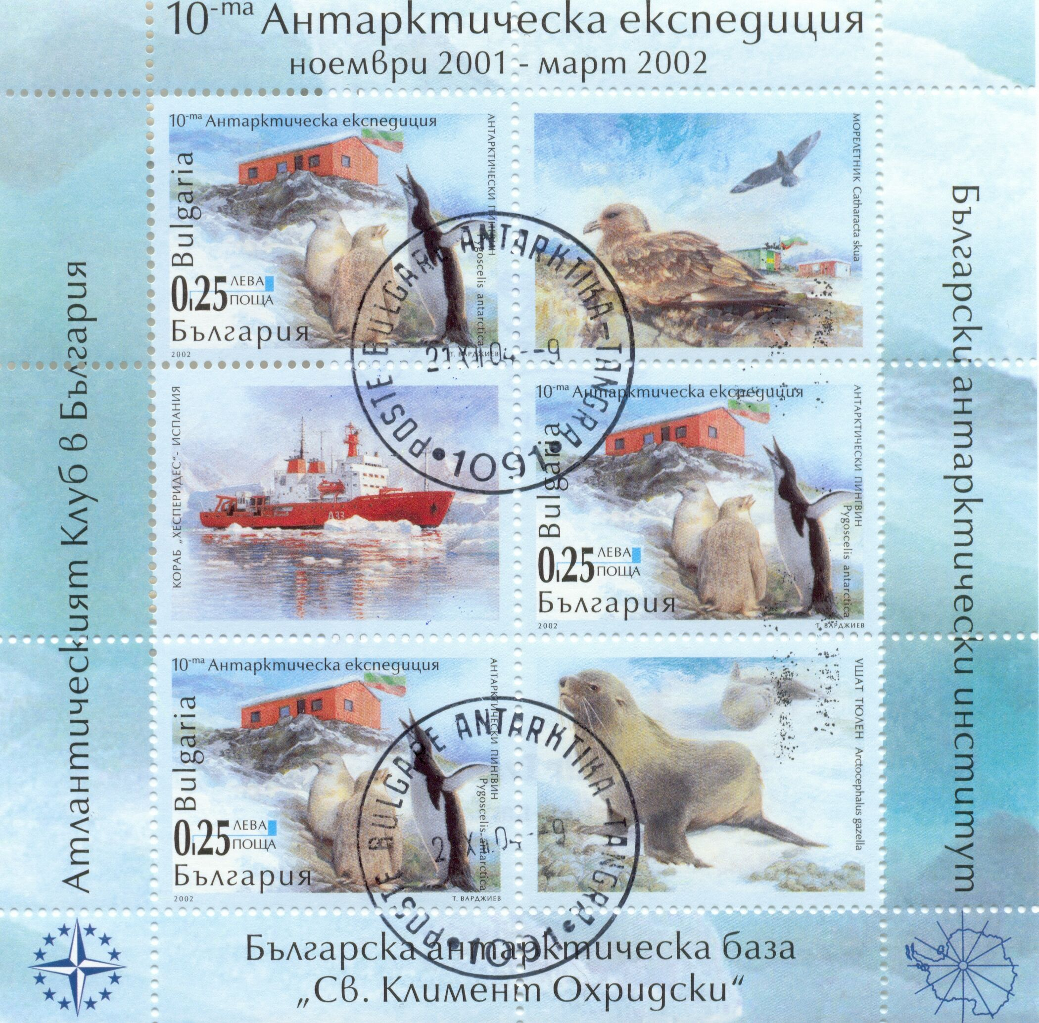 Sheet of stamps “10th Antarctic Expedition”, a commemorative Bulgarian issue published in 2002. Design Prof. Todor Vardjiev.